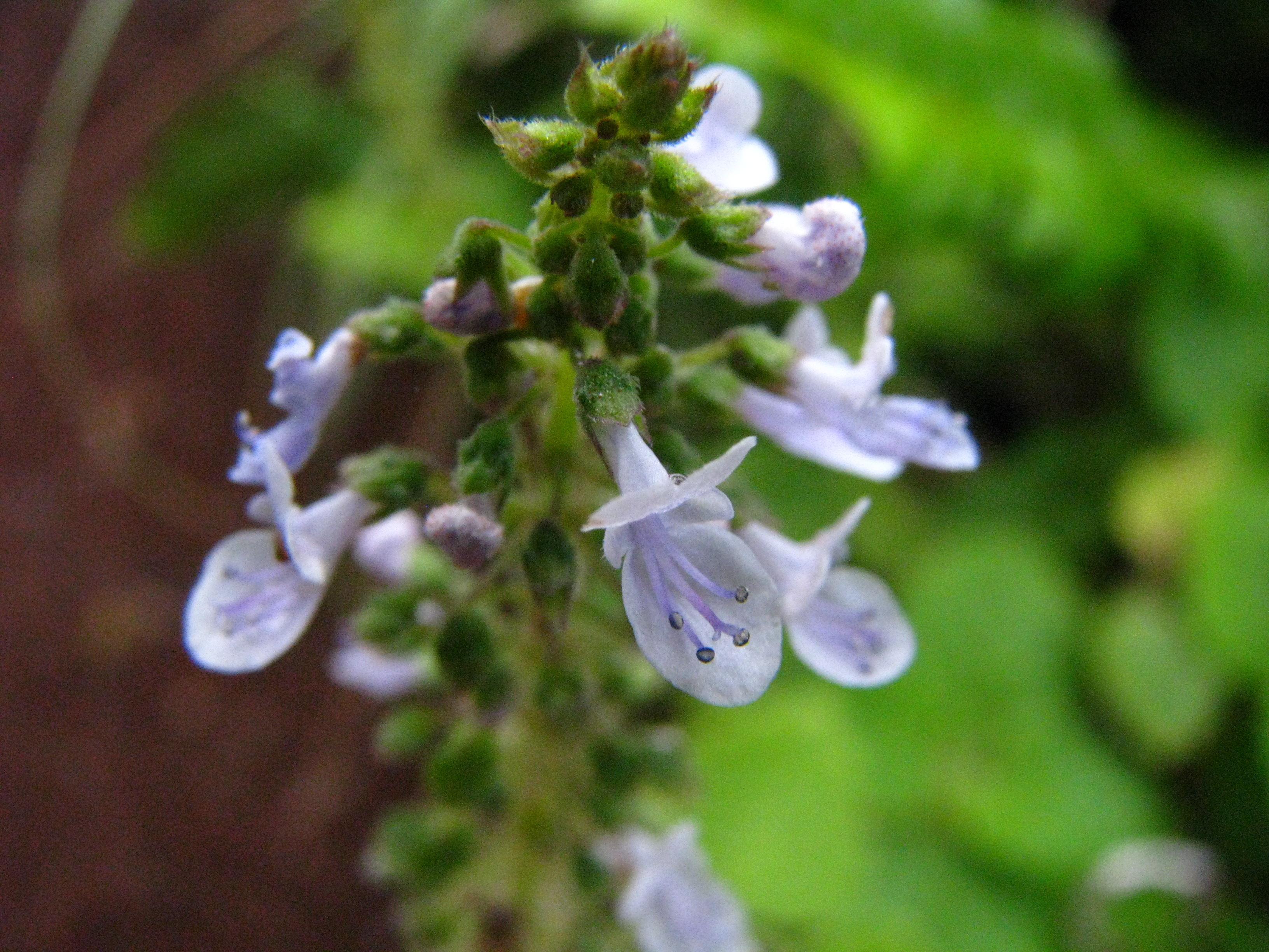 ʻAlaʻala wai nui wahine or Cockspur flower Lamiaceae Indigenous to the Hawaiian Islands Oʻahu (Cultivated)